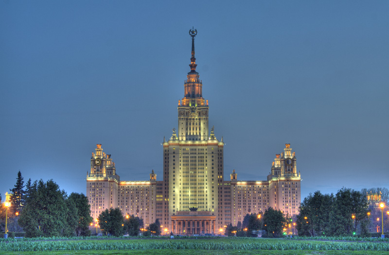 This is an HDR image constructed from three different raw files using Photomatix.